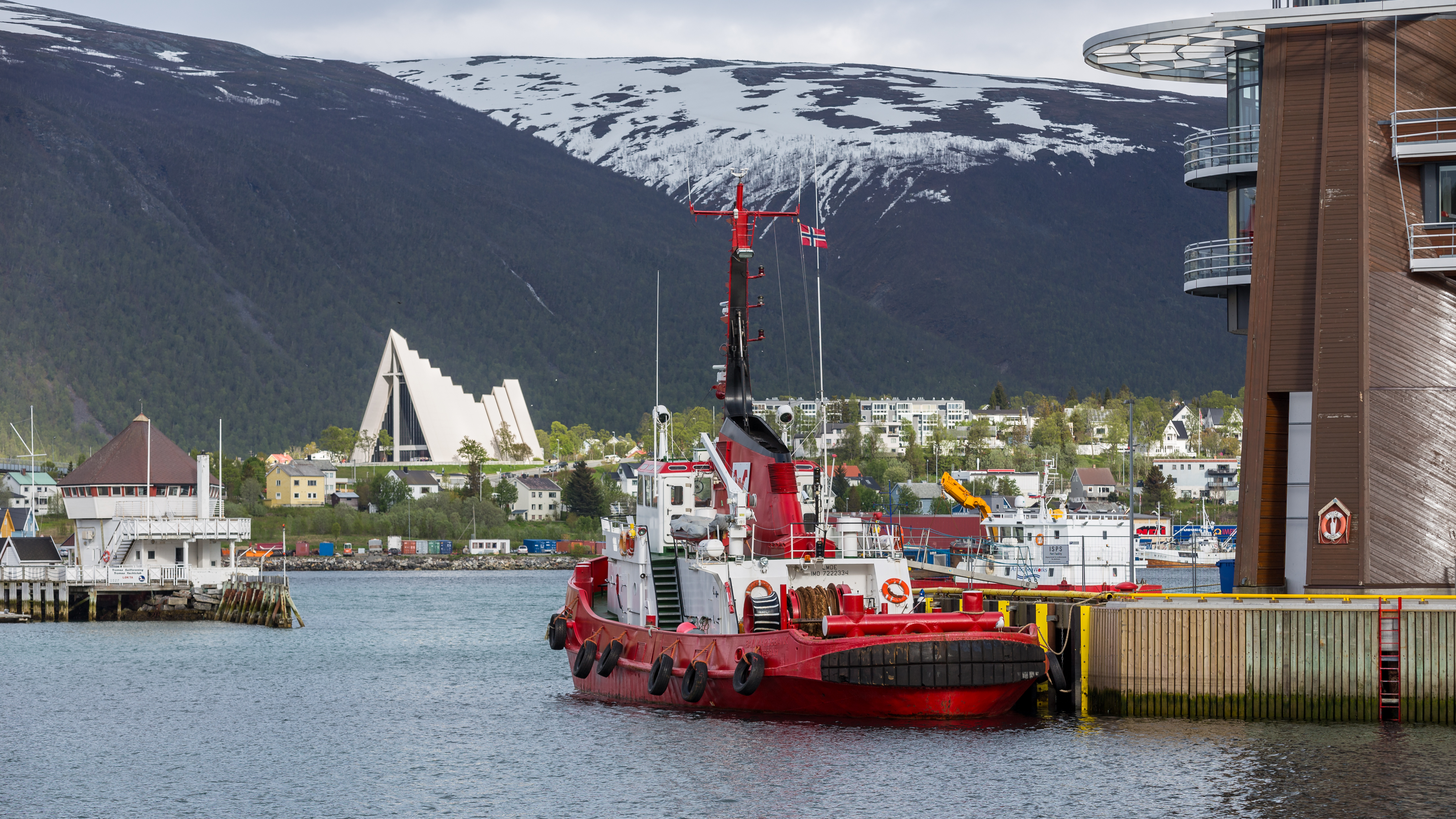 View from Tromsø harbour to the Arctic Cathedral